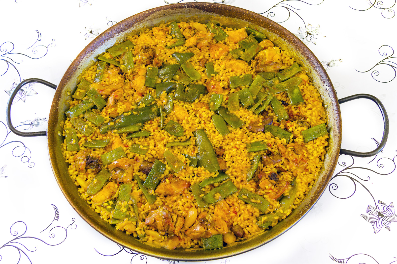 Paella - original Paella from Valencia